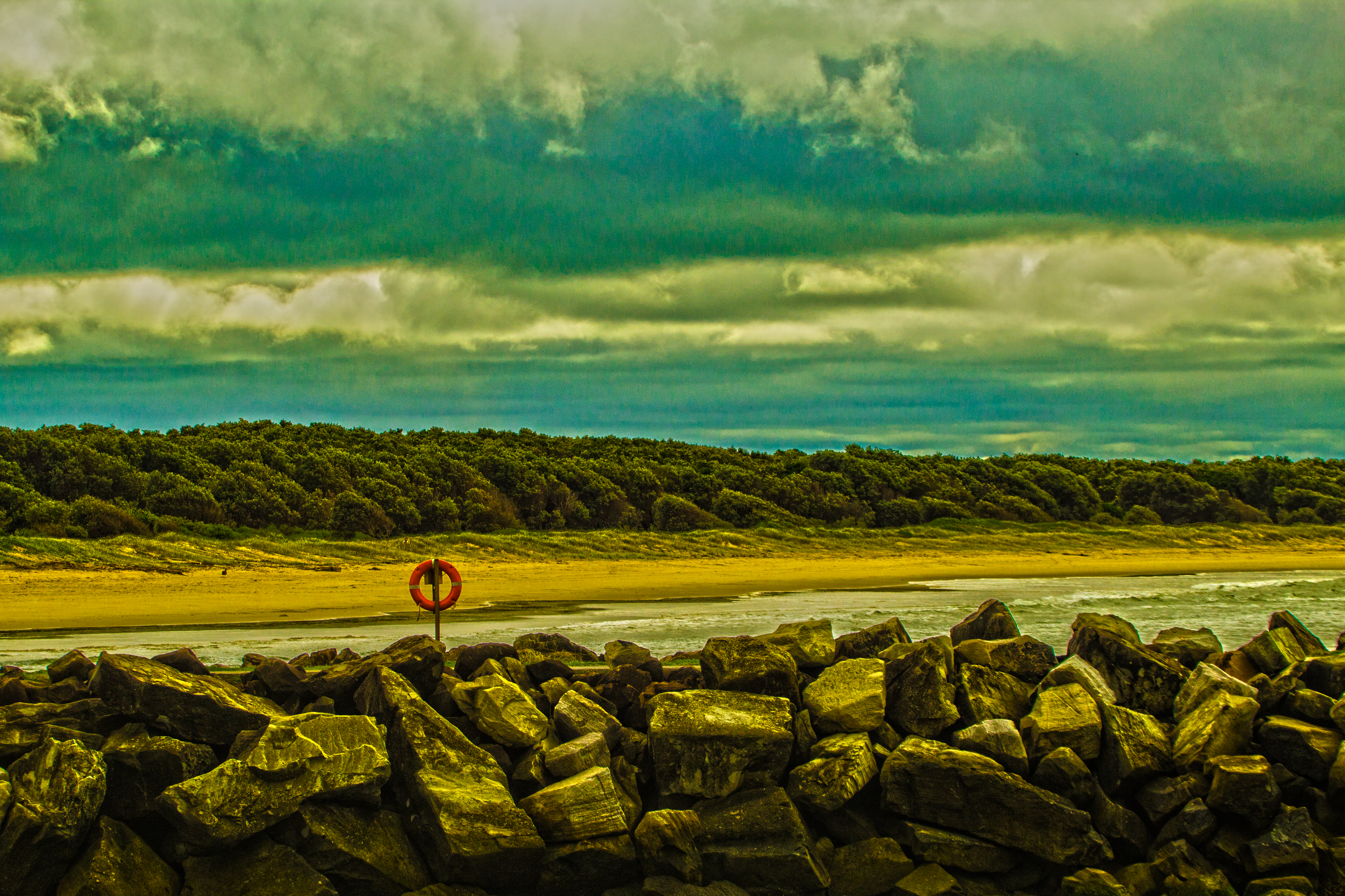 Storm front heading over Evans Head Main Beach, Bundjalung National Park in the Northern Rivers, NSW, Australia.